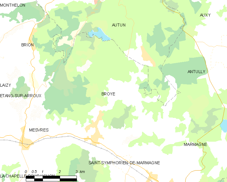 Map of French municipality